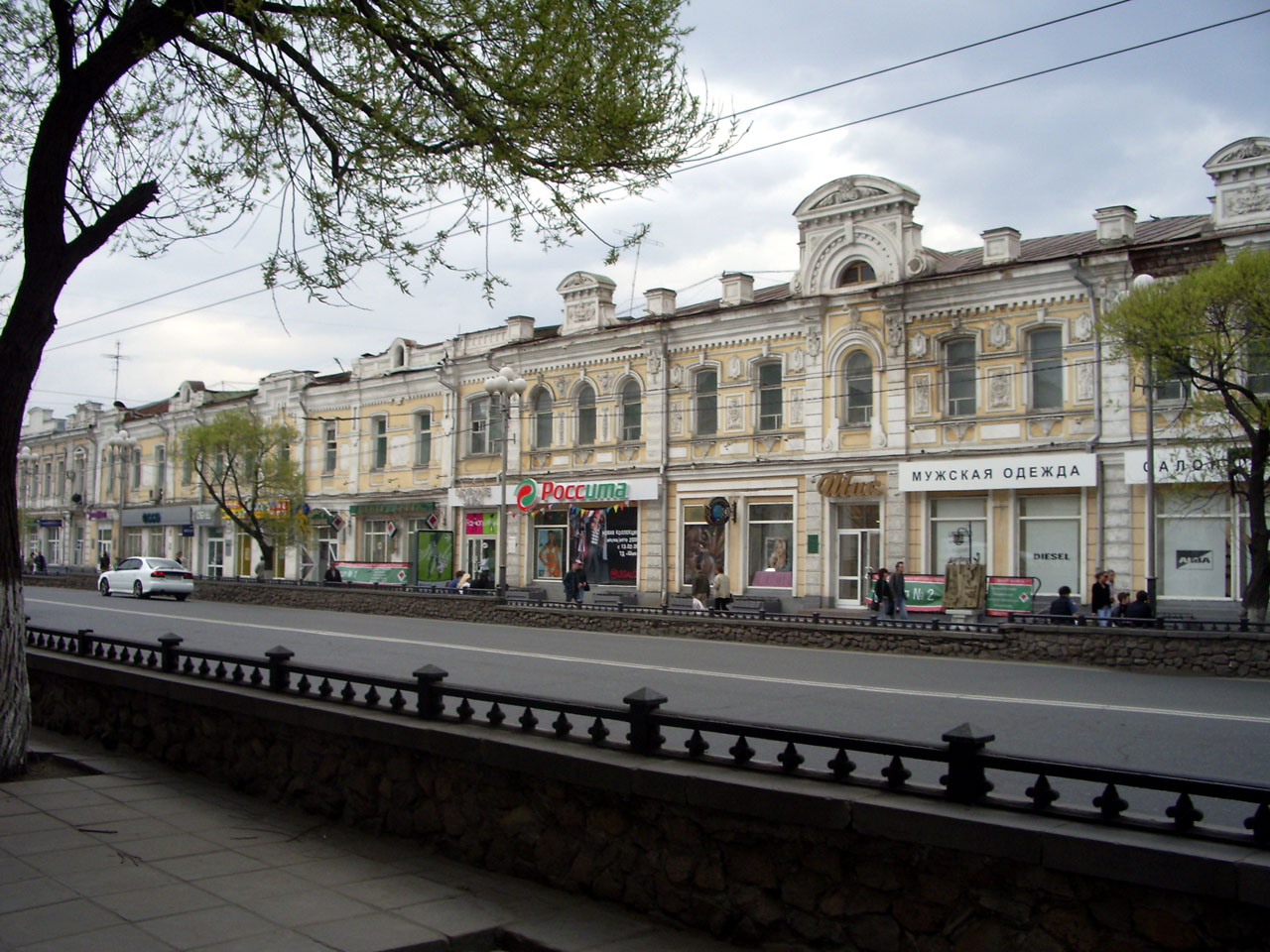 A part of Lenin street in Omsk city consists of these long-long buildings at both sides. Photo by Dmitri Lebedev